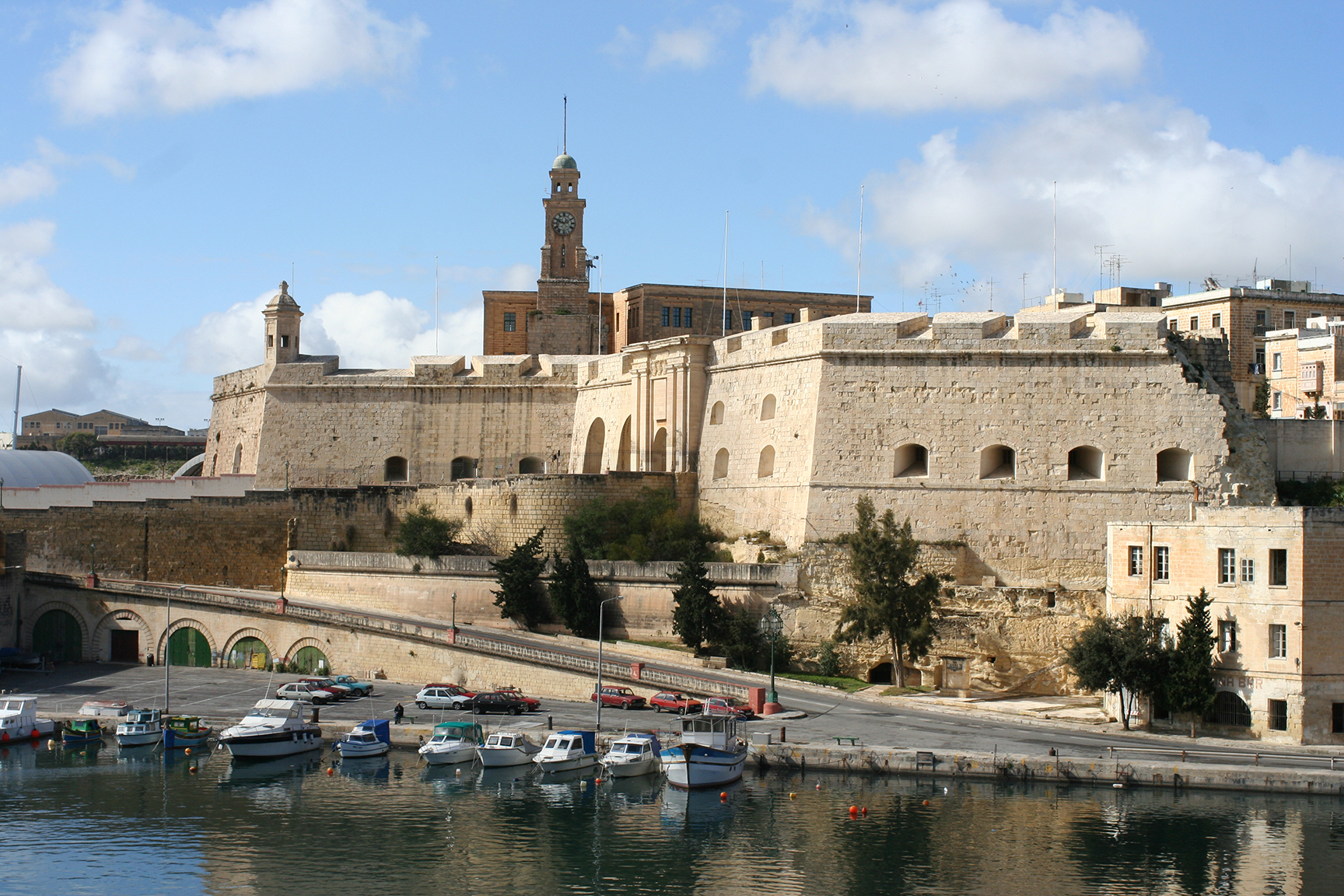 Malta, city walls of Senglea